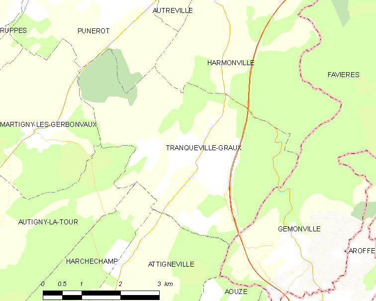 Map of French municipality Tranqueville-Graux